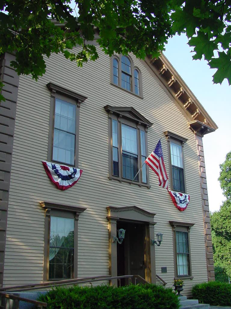 The Community Center building in Sherborn, Massachusetts. Built in 1858 and registered on the National Historic Register.